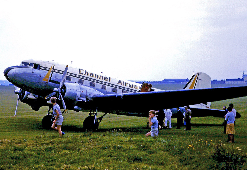 Douglas C-47A (DC-3) G-AHCU of Channel Airways at Rochester Airport, England, in 1965